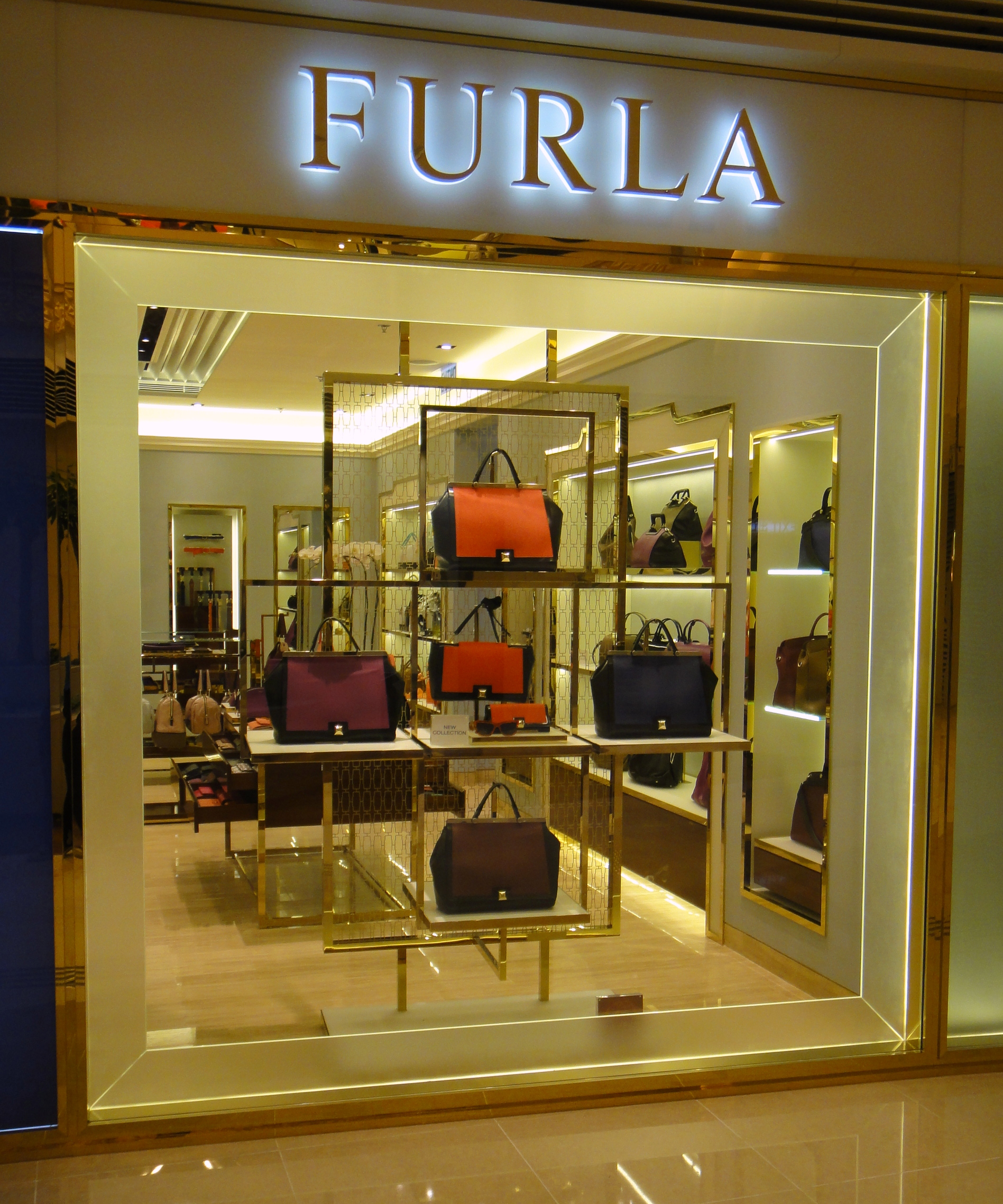 Furla shop inside the Elements, Kowloon.